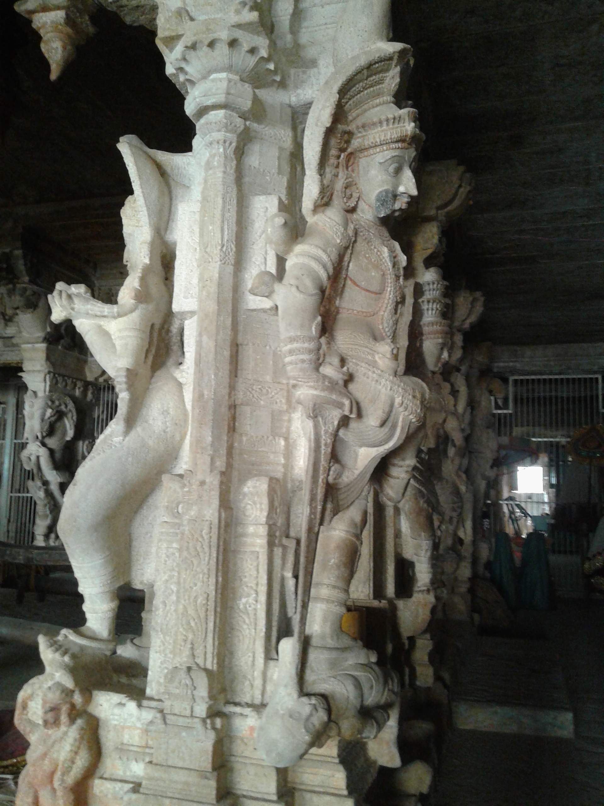 Vanamamalai Perumal Temple